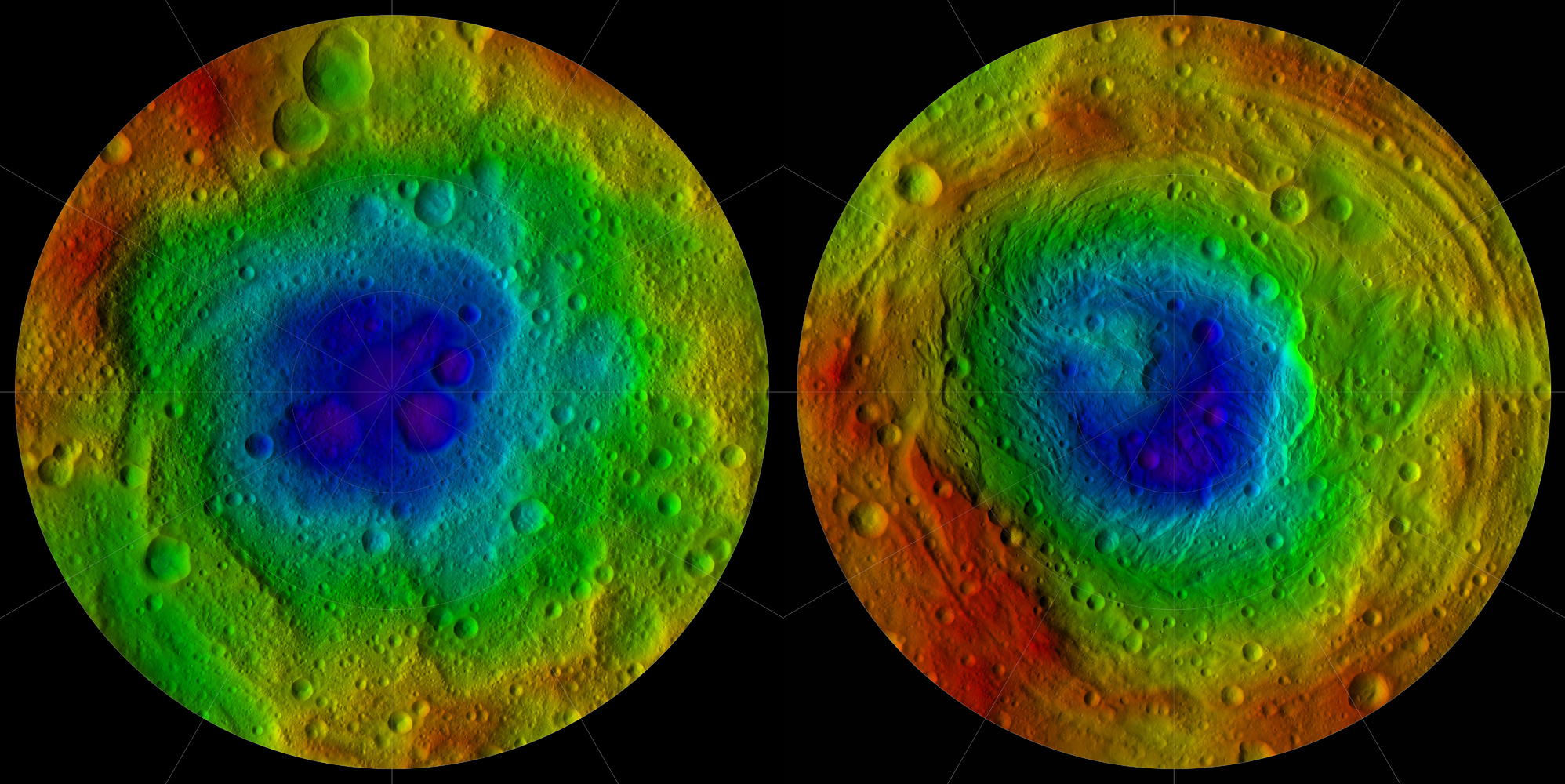 Relief map of the northern and southern hemispheres of 4 Vesta Original caption: This image from NASA's Dawn mission shows the topography of the northern and southern hemispheres of the giant asteroid Vesta, updated with pictures obtained during Dawn's last look back. Around the time of Dawn's departure from Vesta in the late summer of 2012, dawn was beginning to creep over the high northern latitudes, which were dark when Dawn arrived in the summer of 2011. These color-shaded relief maps show the northern and southern hemispheres of Vesta, derived from images analysis. Colors represent distance relative to Vesta's center, with lows in violet and highs in red. In the northern hemisphere map on the left, the surface ranges from lows of minus 13.82 miles (22.24 kilometers) to highs of 27.48 miles (44.22 kilometers). Light reflected off the walls of some shadowed craters at the north pole (in the center of the image) was used to determine the height. In the southern hemisphere map on the right, the surface ranges from lows of minus 23.65 miles (38.06 kilometers) to 26.61 miles (42.82 kilometers). The shape model was constructed using images from Dawn's framing camera that were obtained from July 17, 2011, to Aug. 26, 2012. The data have been stereographically projected on a 300-mile-diameter (500-kilometer-diameter) sphere with the poles at the center. The three craters that make up Dawn's "snowman" feature can be seen at the top of the northern hemisphere map on the left. A mountain more than twice the height of Mount Everest, inside the largest impact basin on Vesta, can be seen near the center of the southern hemisphere map on the right.